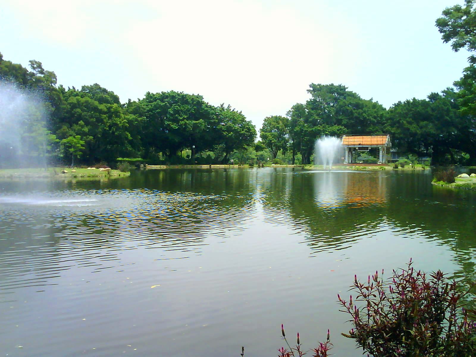 Tunghai University, Taichung, Taiwan.